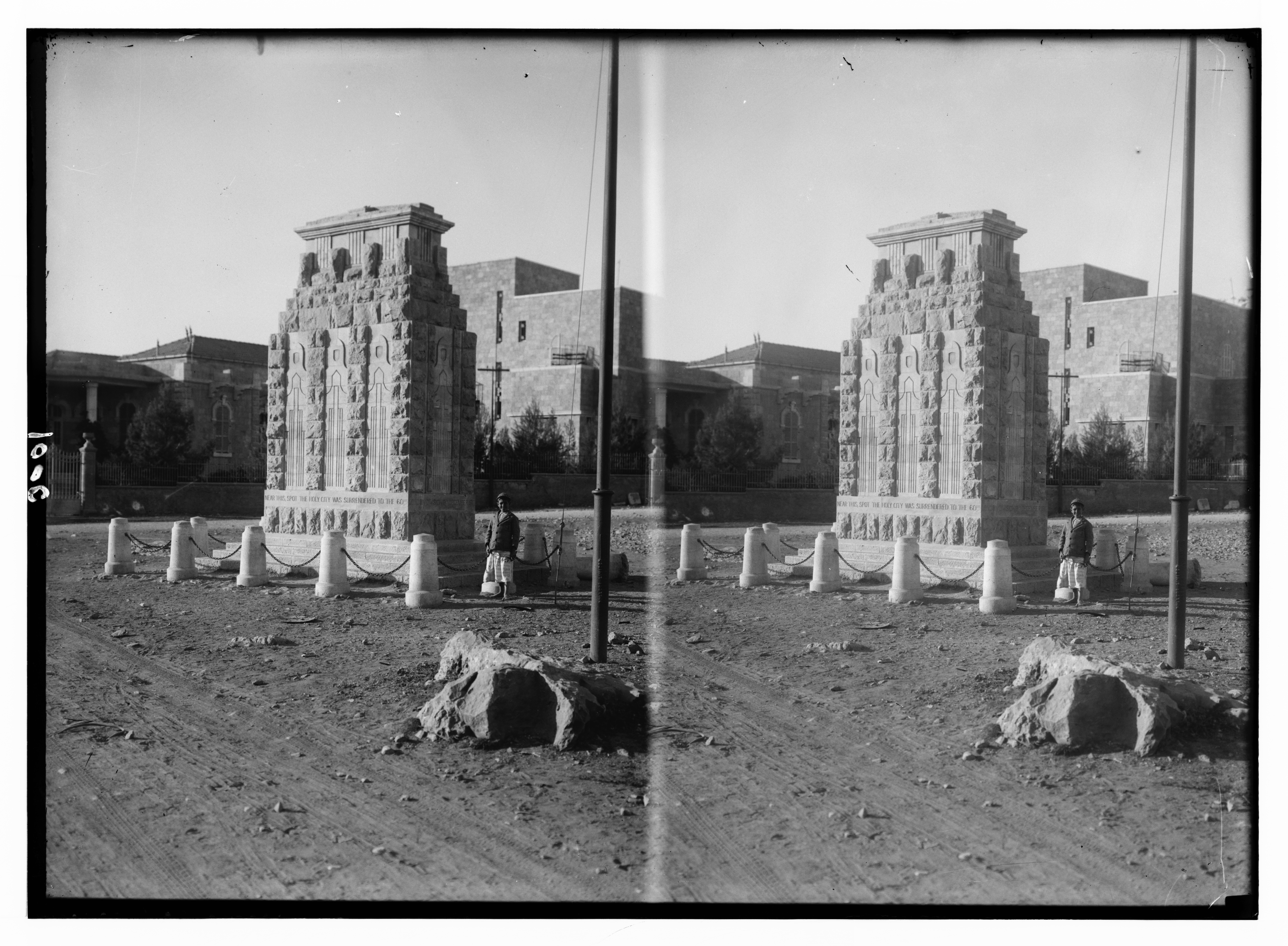 Newer Jerusalem and suburbs. Surrender Monument in Romemah [i.e., Romema] Colony